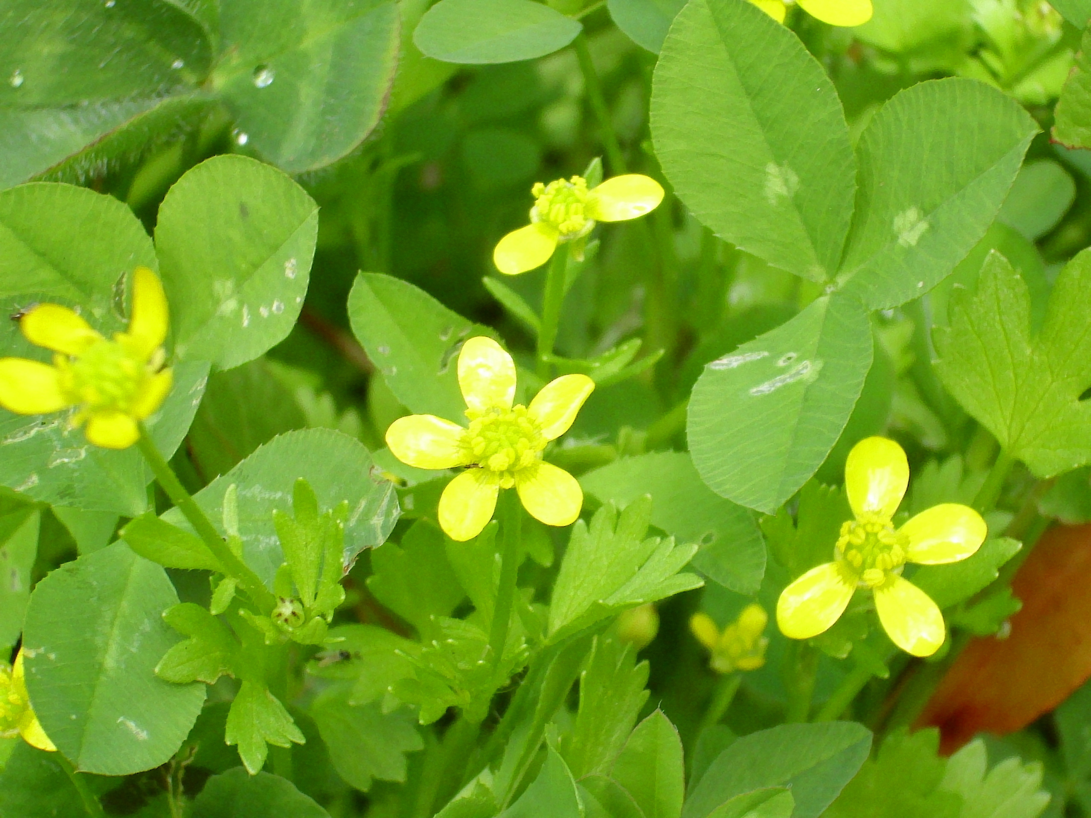 Ranunculus parviflorus close up, Sierra Madrona, Spain